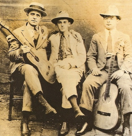 Américo Jacomino (canhoto) and friends 1910s